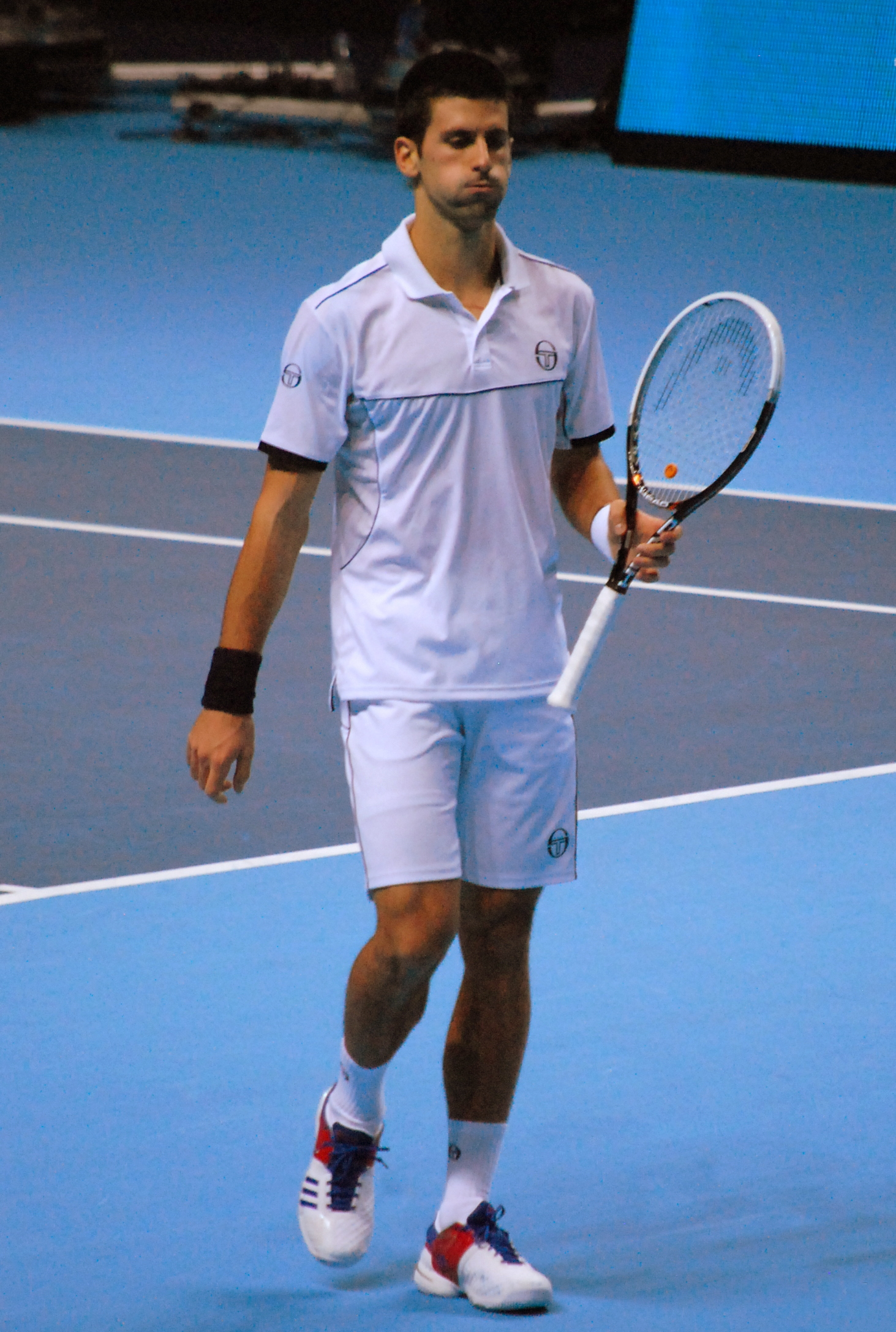 Novak Djokovic v Tomas Berdych, ATP World Tour Finals, the O2, London November 2011.